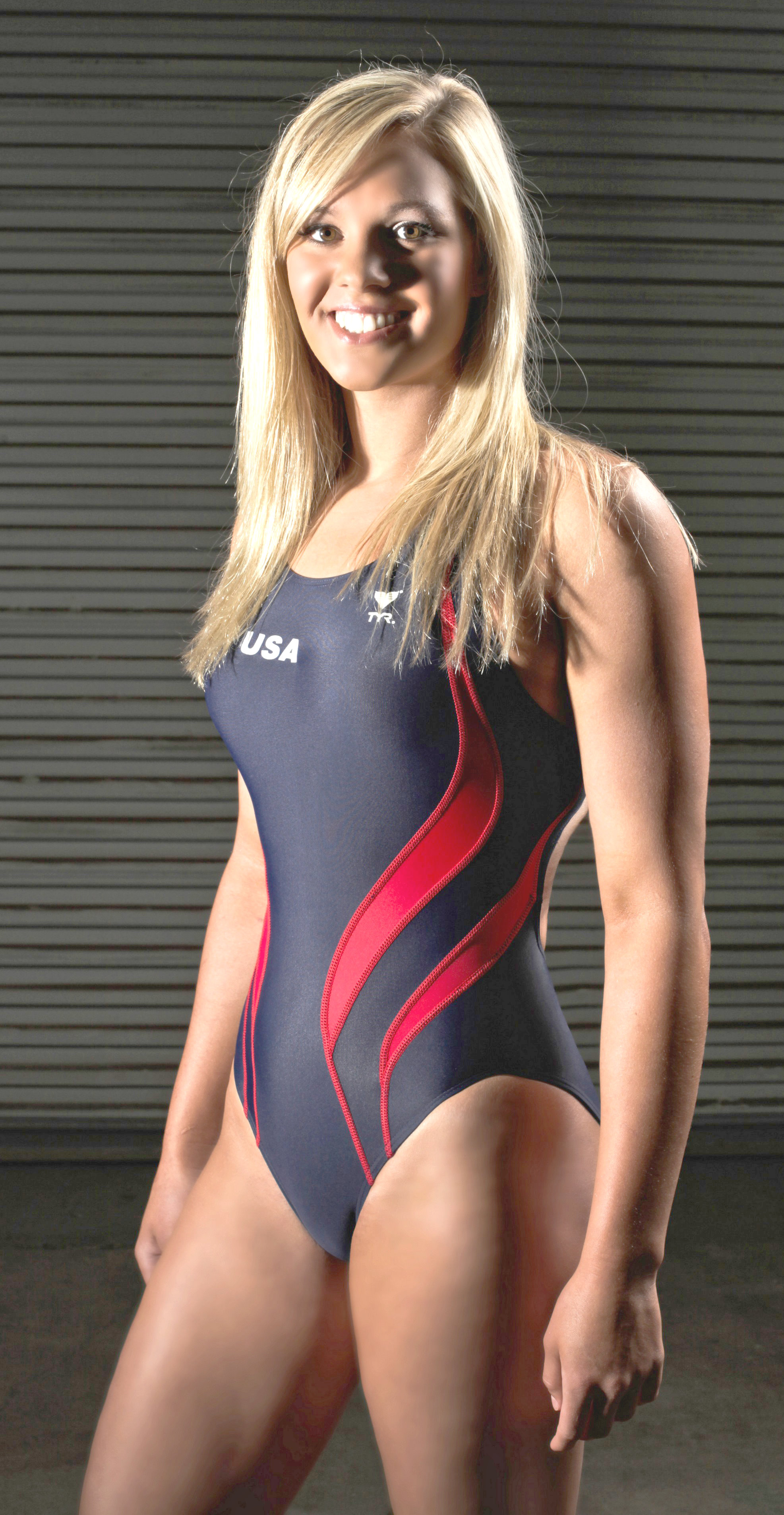 Chloe Sutton, American swimmer